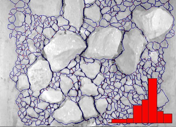 based on wikipedia's Sample_Net.png and Sieve_results.jpg